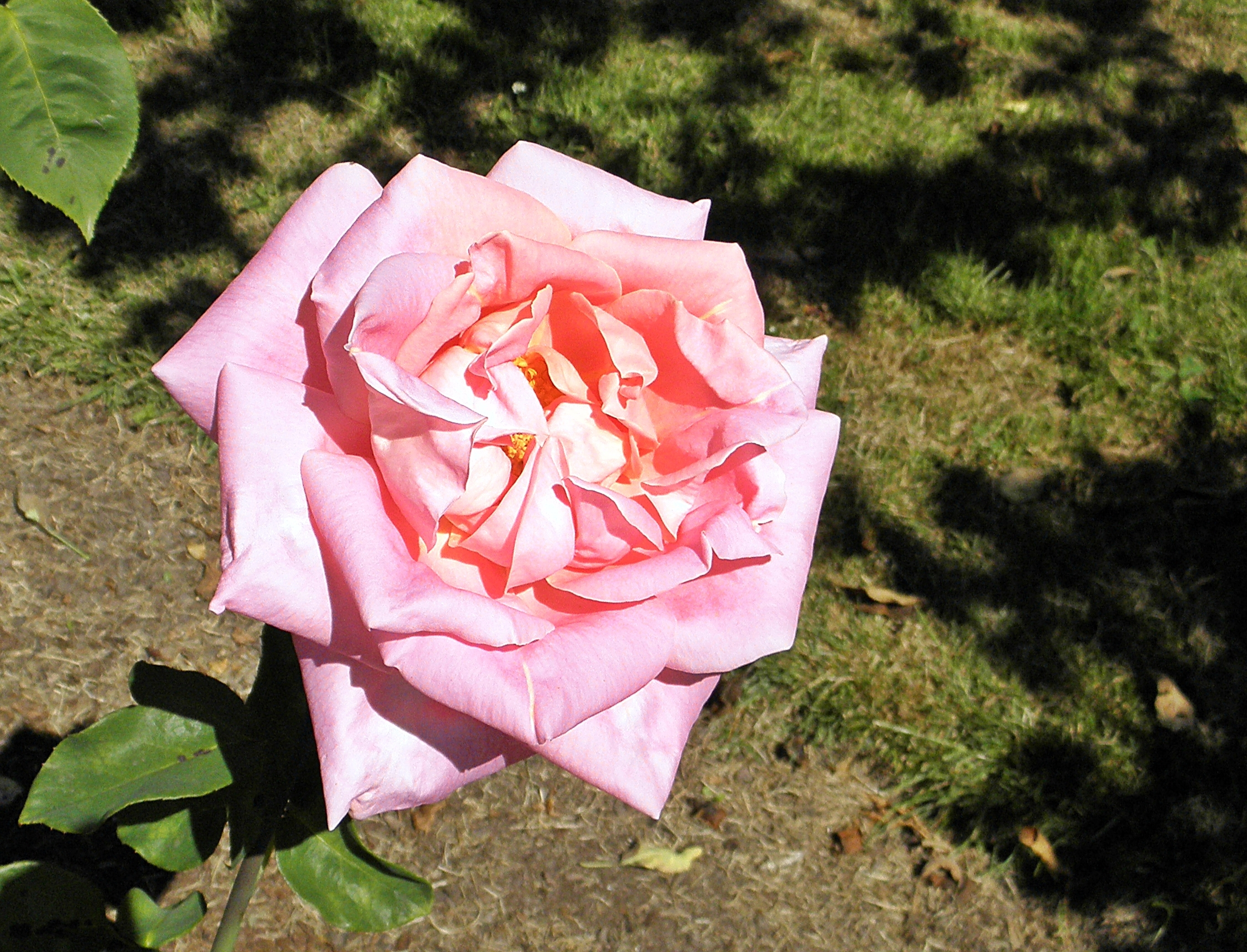 Hybrid Tea Rose 'Dr. Debat'; Bush Pasture Park Rose Garden, Salem, Oregon. 97301